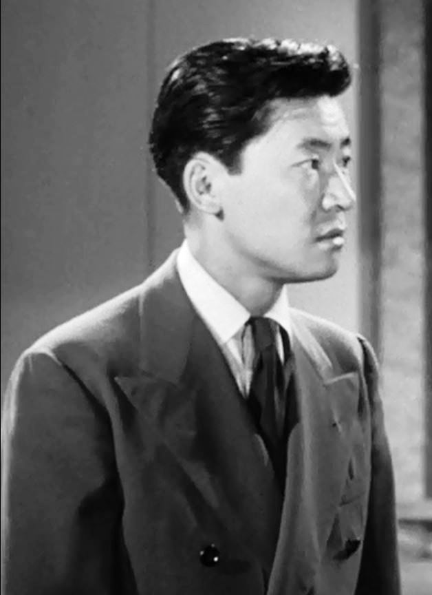 Low resolution screenshot of Victor Sen Yung as Jimmy Chan and Willie Best as Chattanooga Brown from the American film Dangerous Money (1946). The film is in the public domain due to the omission of a valid copyright notice on its original prints.